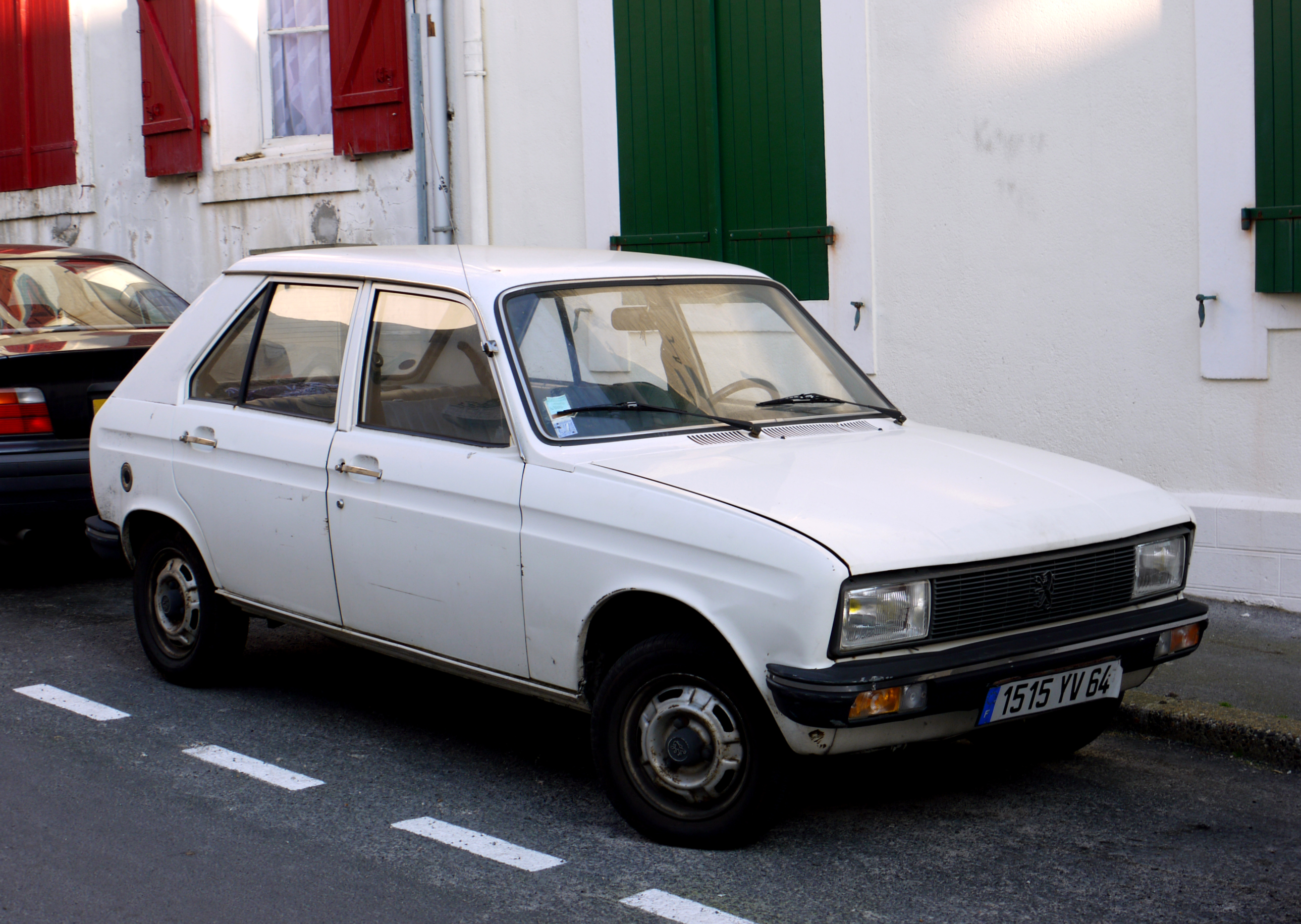 Peugeot 104 GL - phase II, most probably a post 1982 model.